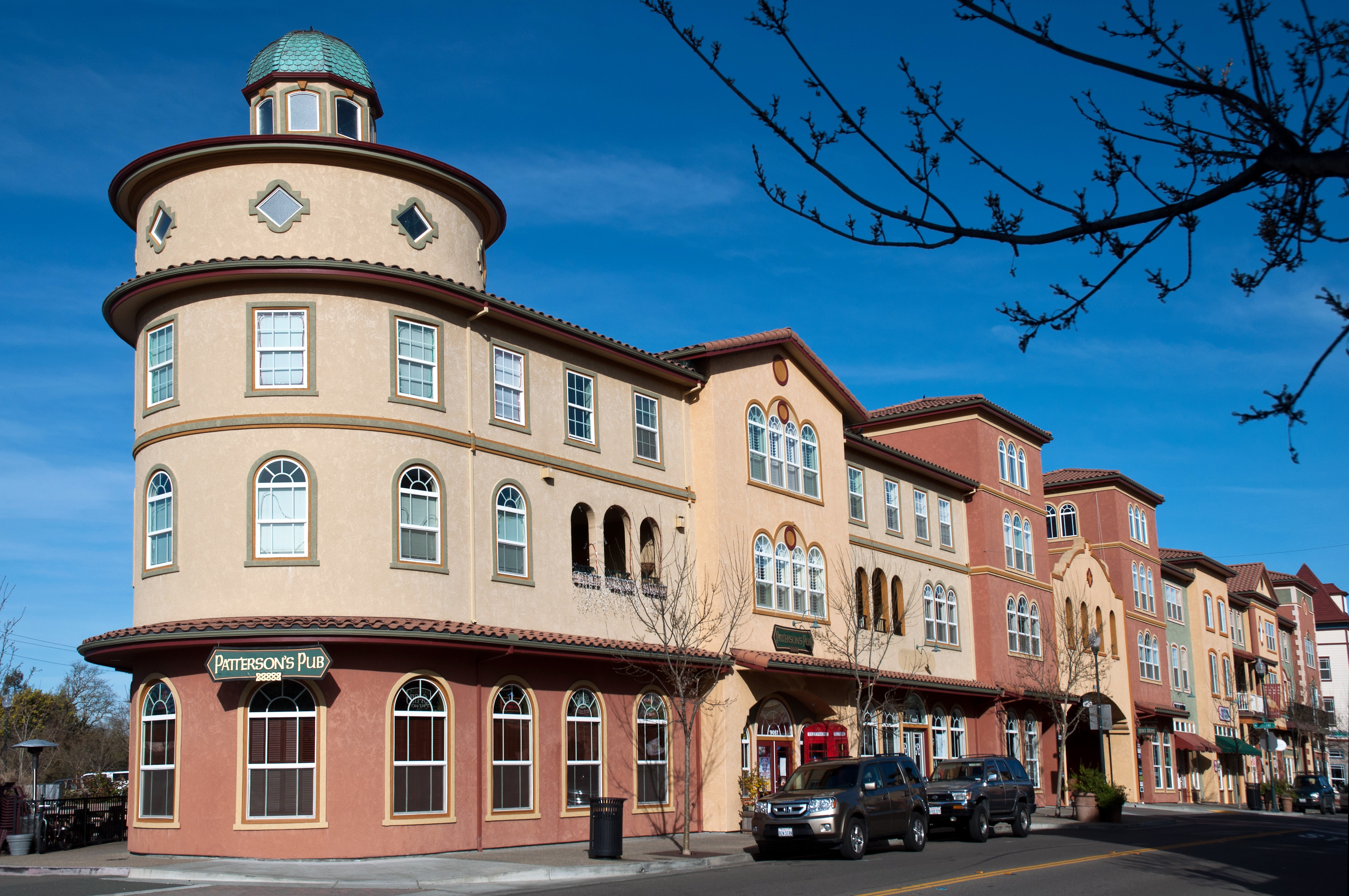 Downtown Windsor Entrance near Windsor Road